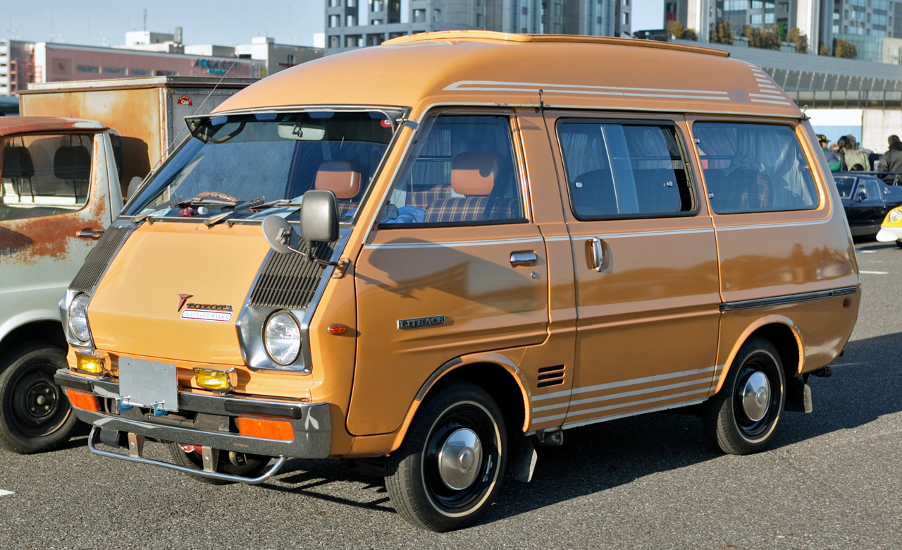 Toyota Liteace Wagon Hi-Roof 1200 Super ( KM10G )